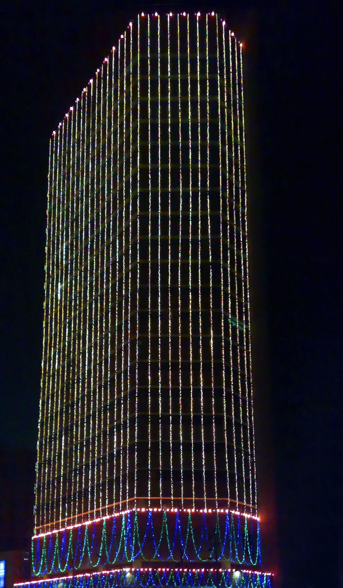 Janata Bank Bhaban night view Motijheel, Dhaka on 16th December, 2011.